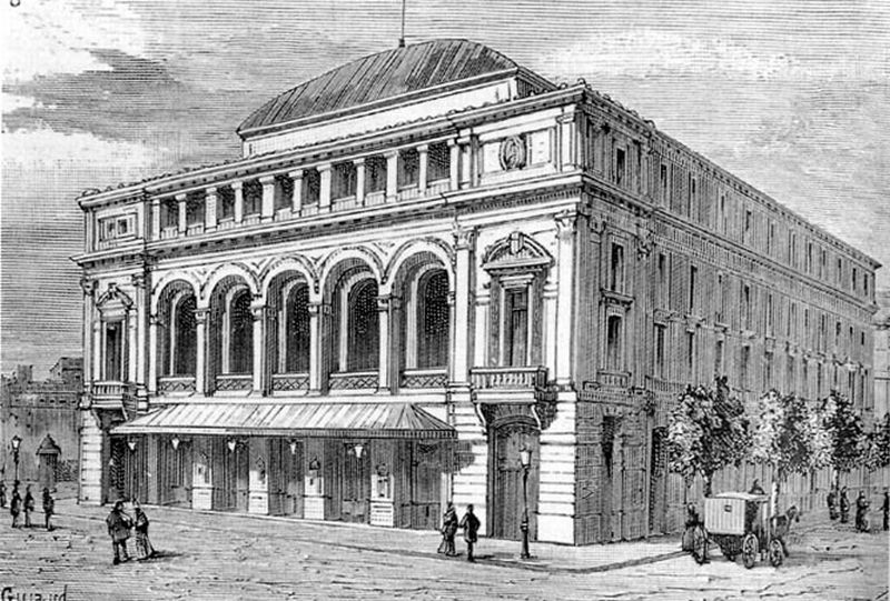 Engraving of Theatre Lyrique on Place du Chatelet, as published in L'Illustration (1863)[1]